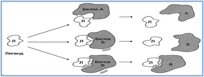 Բանալի կողպեք